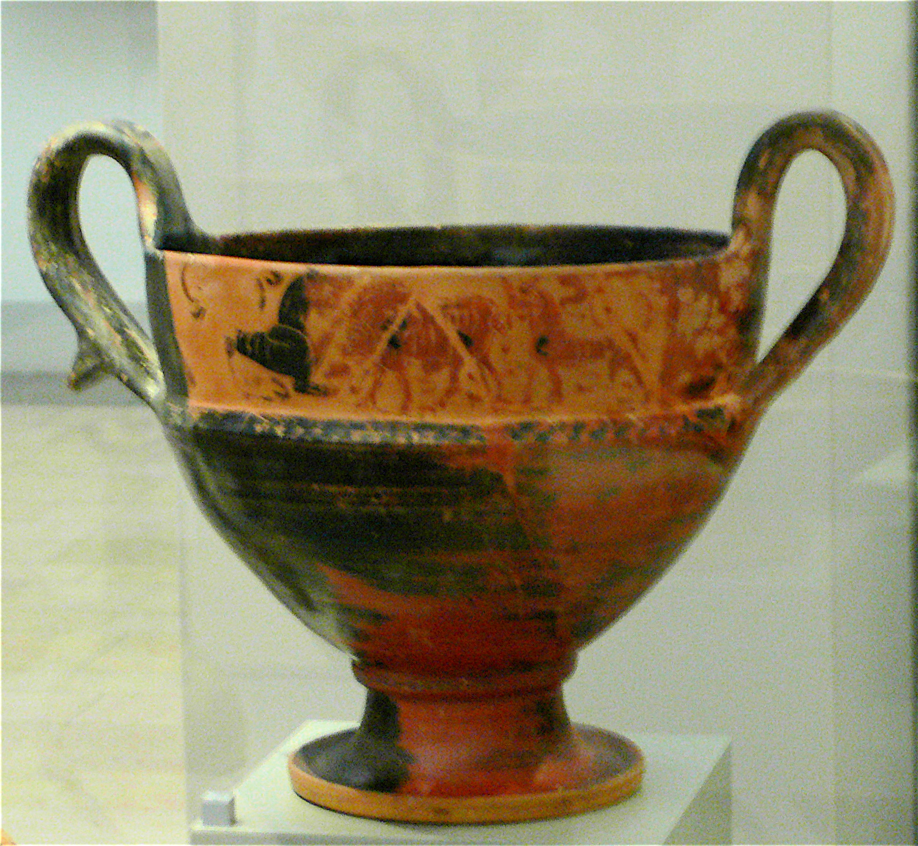 Misfired black-figured vase from Thebes, misfiring probably due to uneven heat distribution or insufficient transfer of carbonous gases on the kiln.